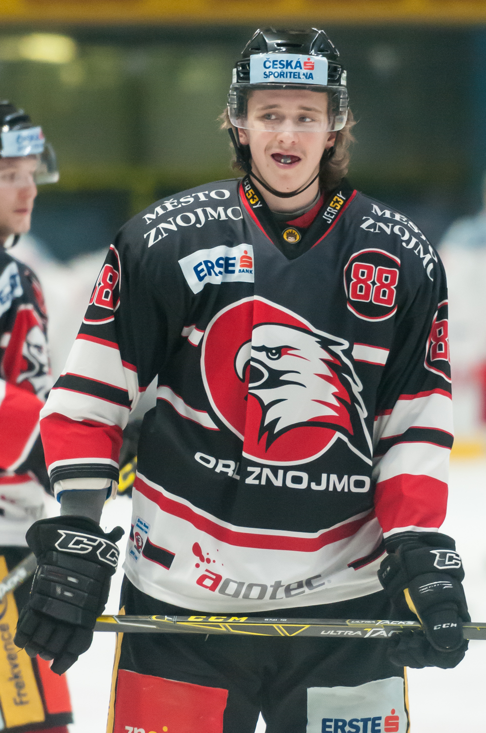 EBEL Orli Znojmo vs. HC Bolzano 2016-02-05